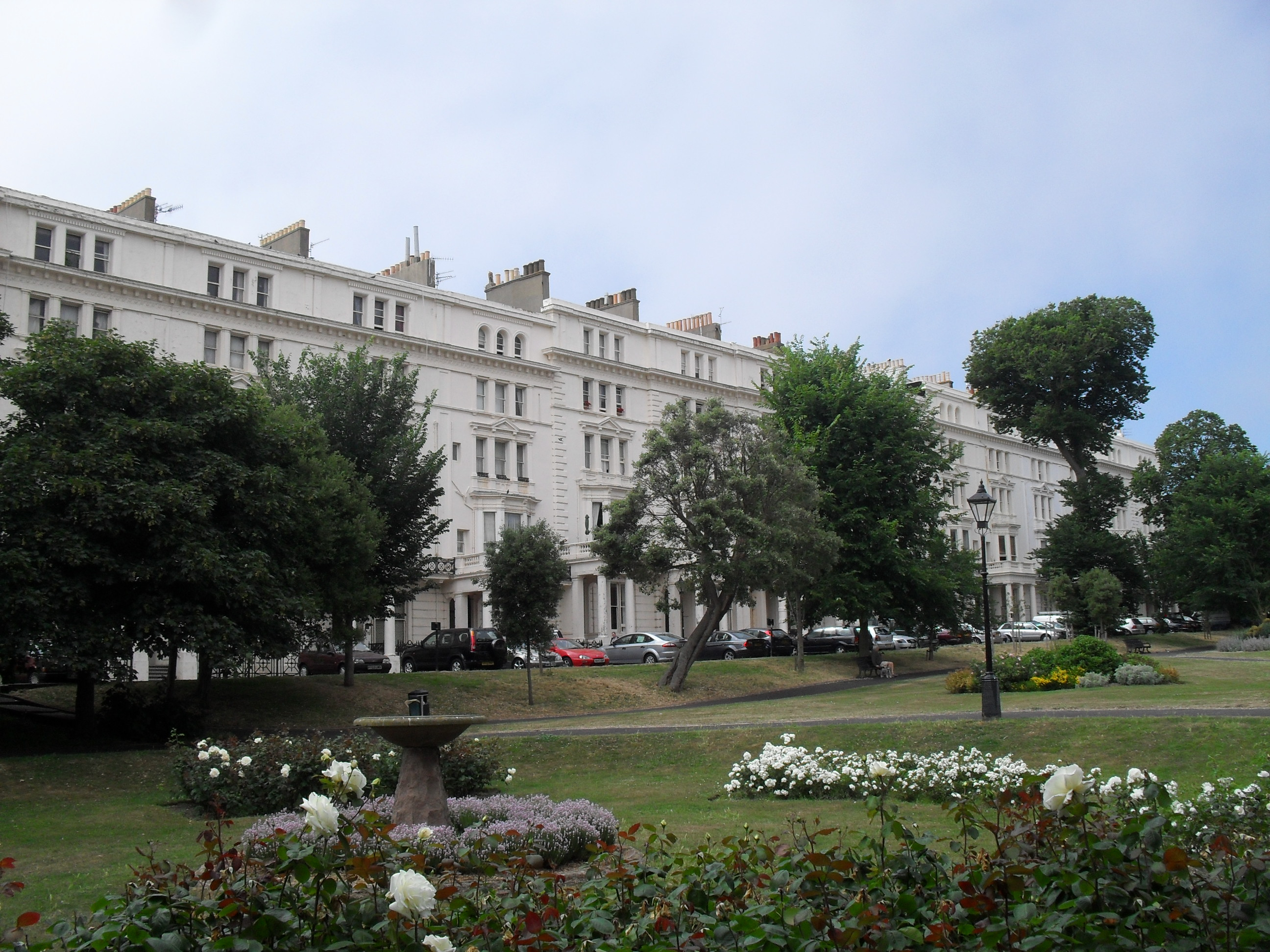 18–30 Palmeira Square, Hove, City of Brighton and Hove, England. The west side of the mid-19th-century Palmeira Square residential development in the centre of Hove. Listed at Grade II by English Heritage (NHLE Code 1187581)